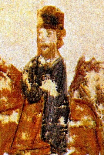 Boris II